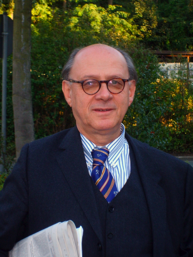 Gerd Leo Kuck, German Stage and Theatre Director